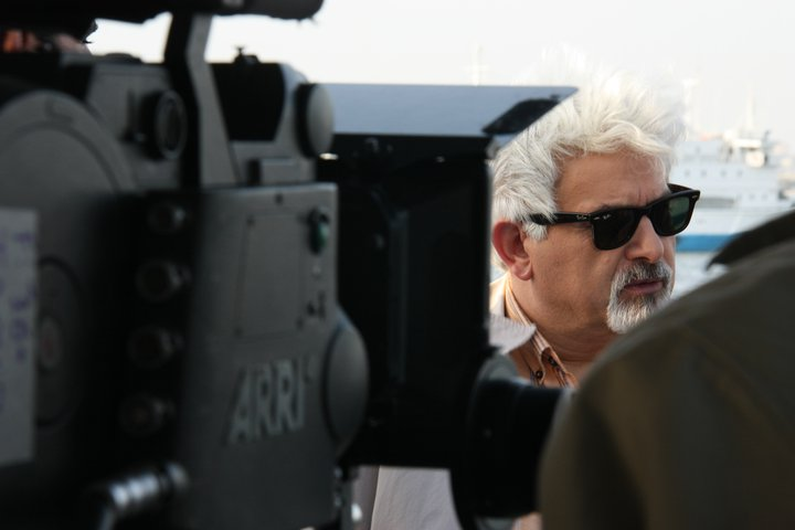 پشت صحنه فیلم برداری زمان معکوس-باکو